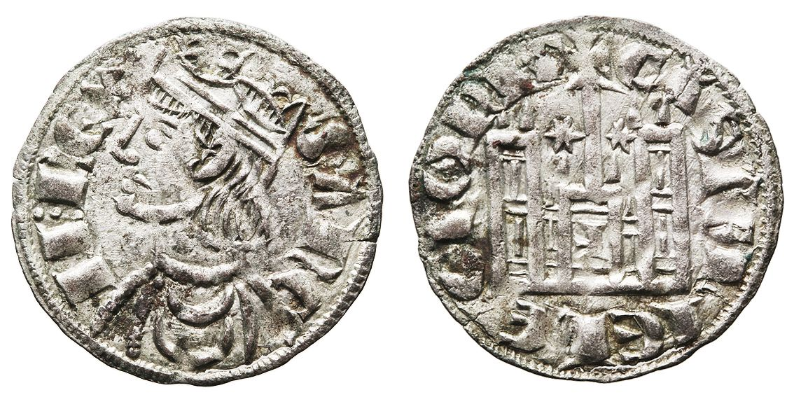 Castilian cornado, billon coin from the reign of Sancho IV of Castile (1284-1295). Minted in León.